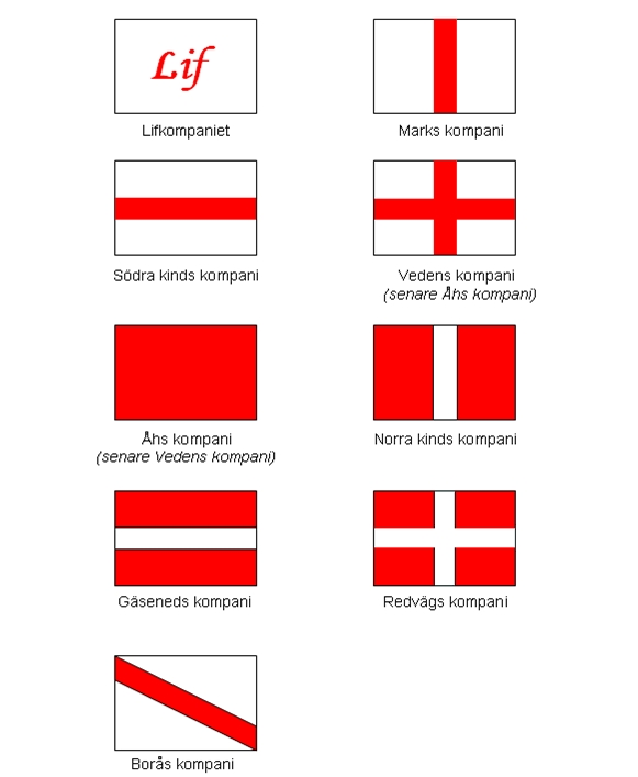 Companyflags from Älvsborgs regt.